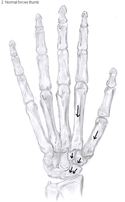 Showing the normal forces of the thumb